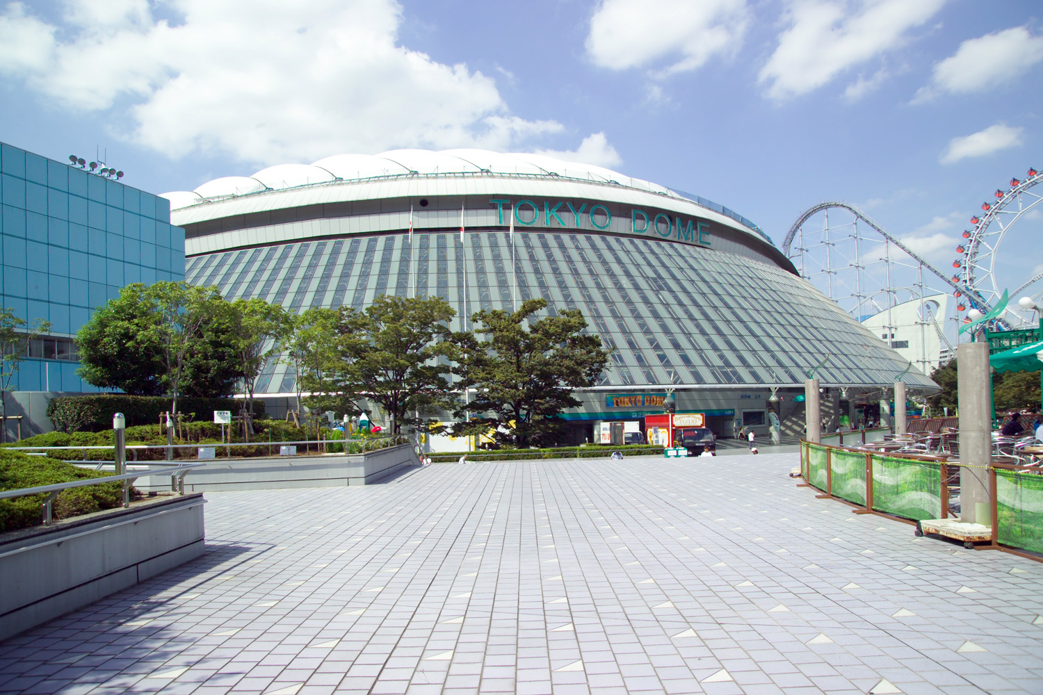 Tokyo Dome baseball stadium, adjacent to Suidobashi Station on JR Chuo-Sobu Line,Tokyo, Japan. I took the photo and release all my rights in this file to the public domain. Individuals and organizations retain rights to their images in the file.